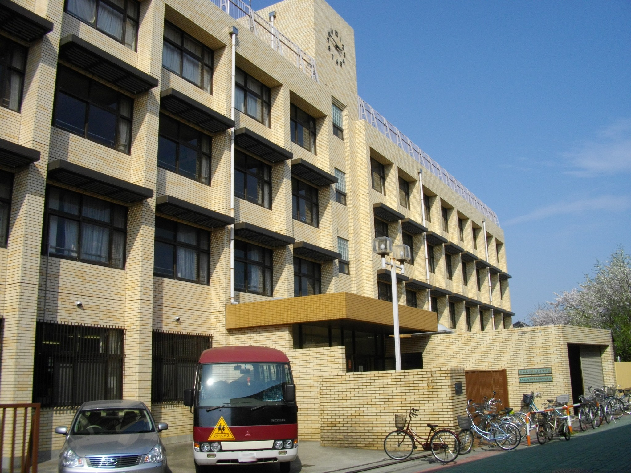 Tokyo Korean 4th Elementary and Junior High School